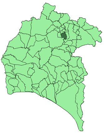 Situation of the municipality of Alájar (Huelva).